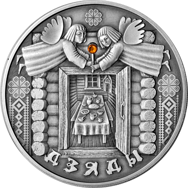 "Dziady", Silver commemorative coins, denomination: 20 rubles